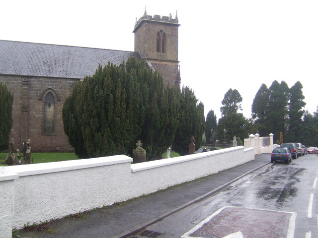 Brookeborough church The village was formerly known as Aghalun and lies between Enniskillen and Belfast just off the A4 trunk road. The church is opposite the primary school on the eastern edge of the village.